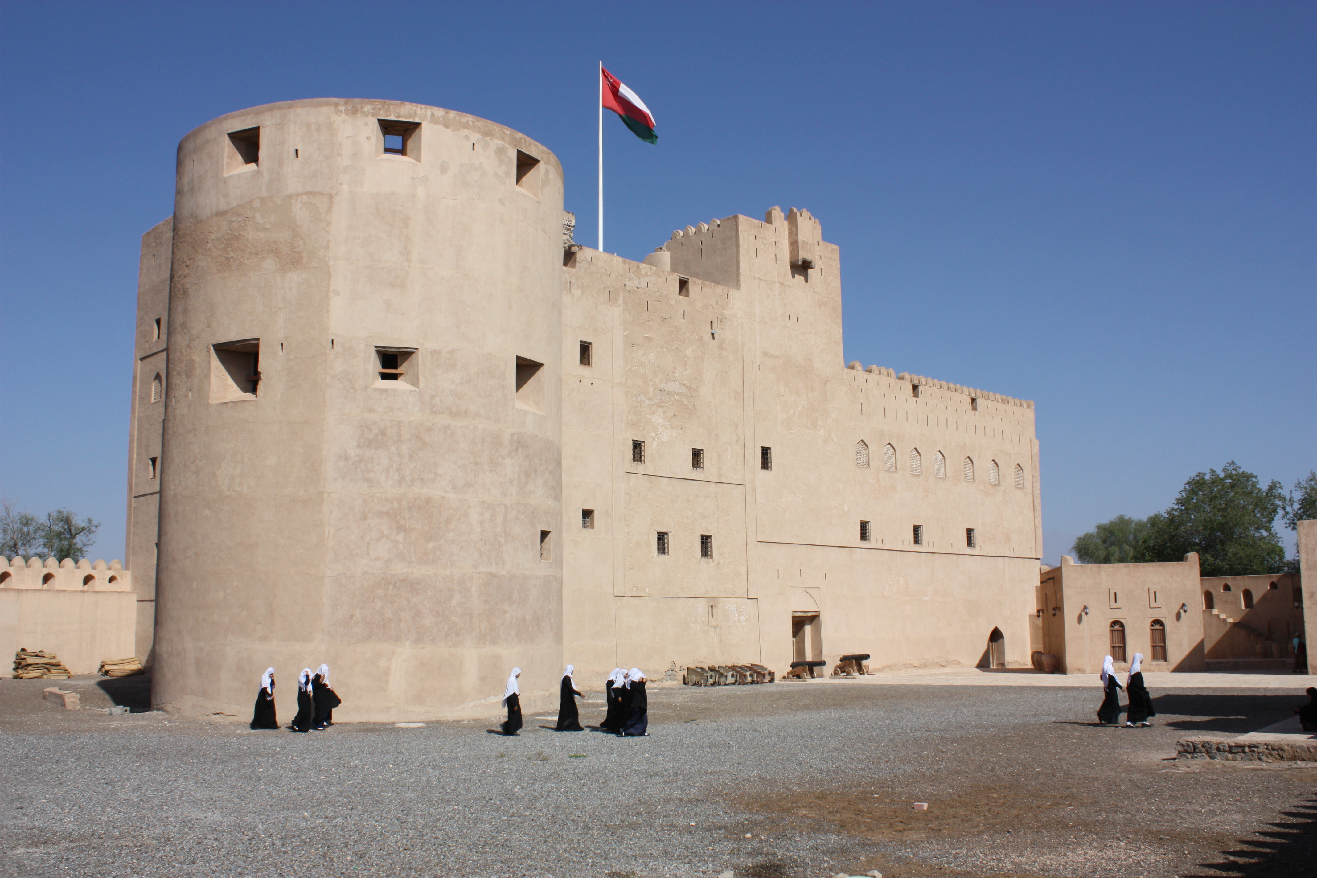 Jabreen, fort and school class